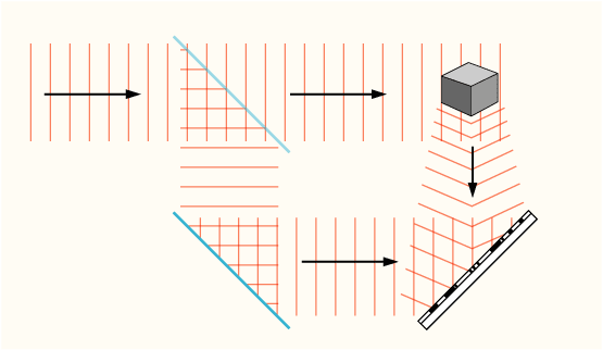 Text-removed version of image:holography-record.png, for non-english wikipedias.